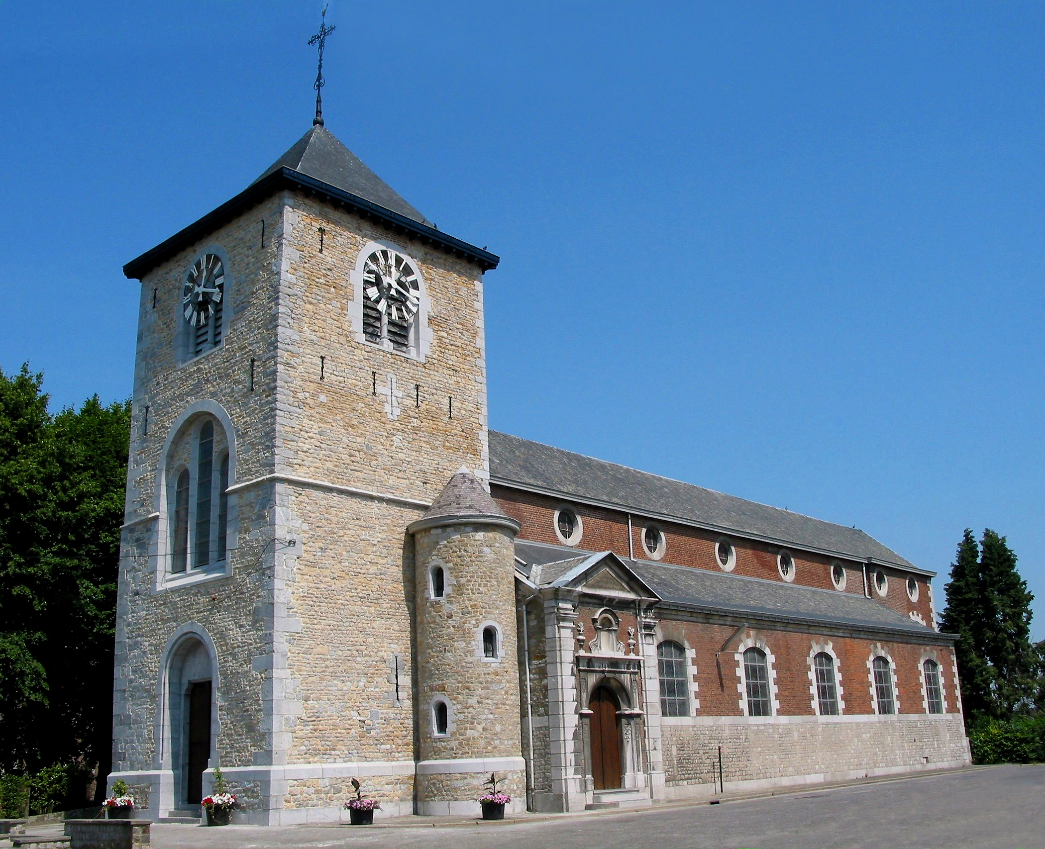 Saint-Georges-sur-Meuse (Belgium), the Saint George's church (XV/XVIIIth centuries).